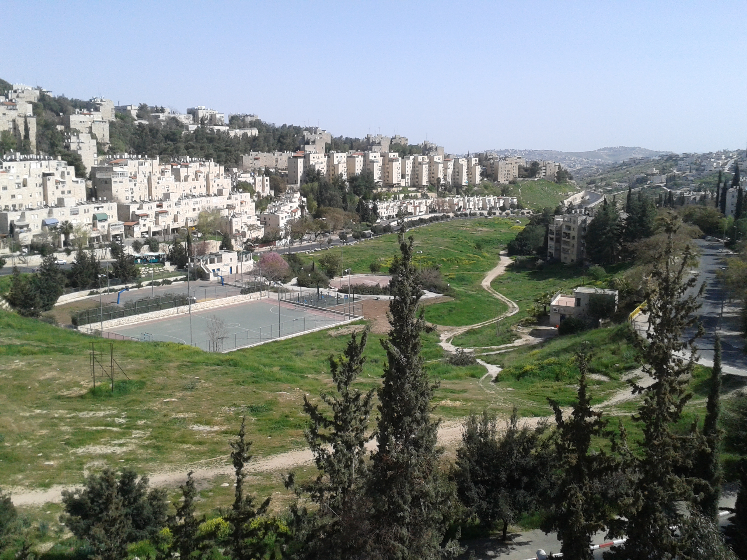 View of East Talpiot from the Beit Canada Absorption Center